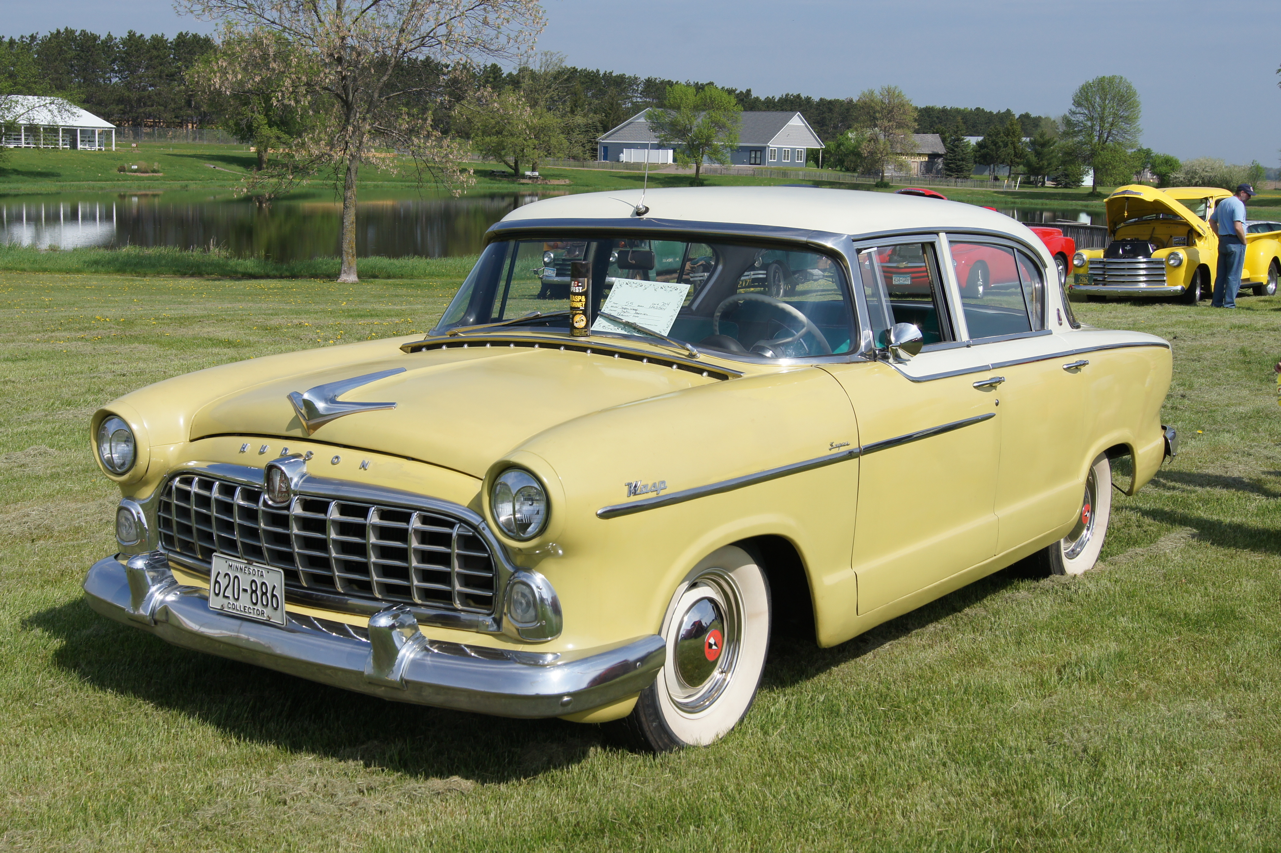 40th ANNUAL GREENBERG MEMORIAL DAY CAR SHOW & SWAP MEET Hosted by: The North Central Chapter Hudson Essex Terraplane Club May 26, 2014 Cambridge Minnesota